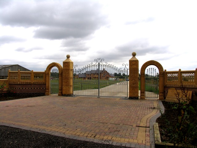 Jaisalmer House.